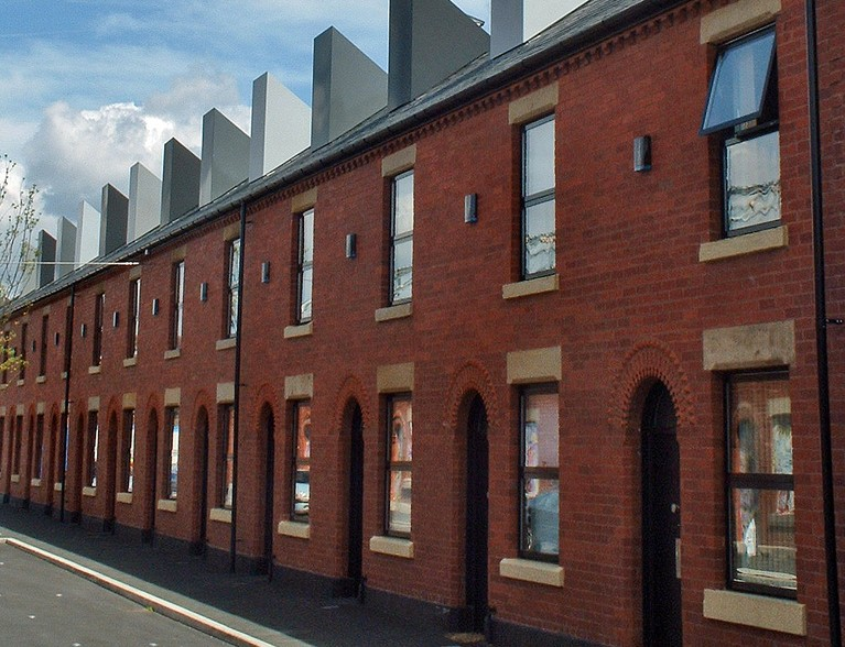 A row of terraced houses in Salford, Greater Manchester, England renovated by gentrification company, Urban Splash. (cropped into landscape) See Byelaw terraced house